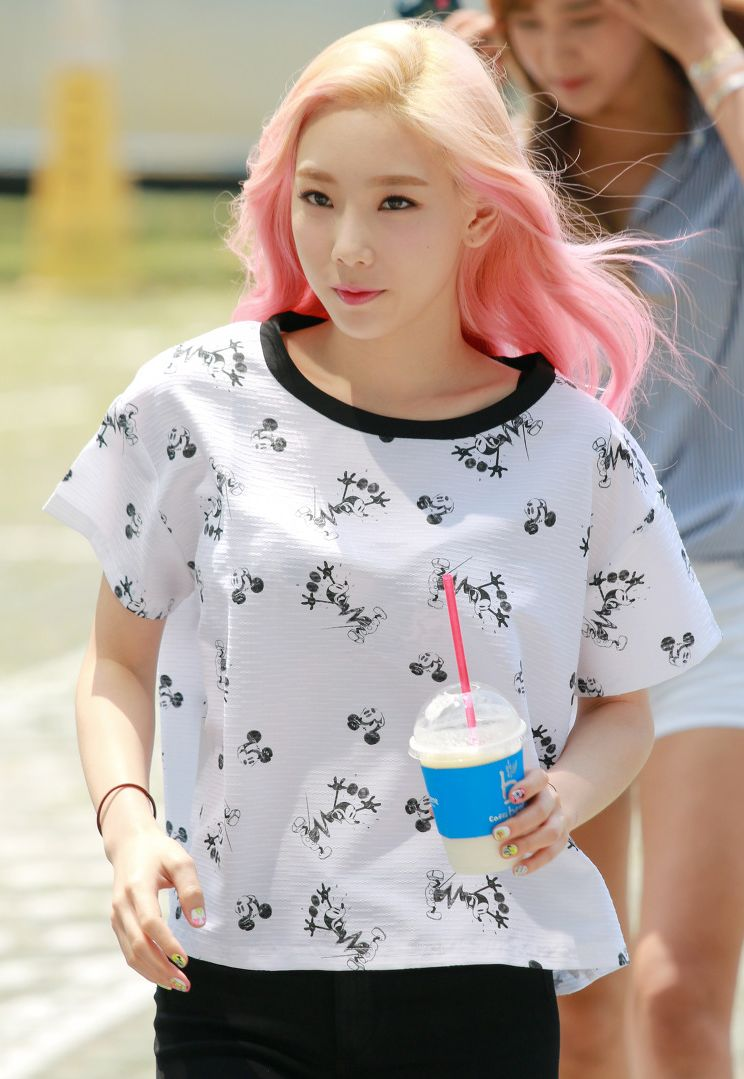 Taeyeon arriving at the Cultwo Show on July 14, 2015